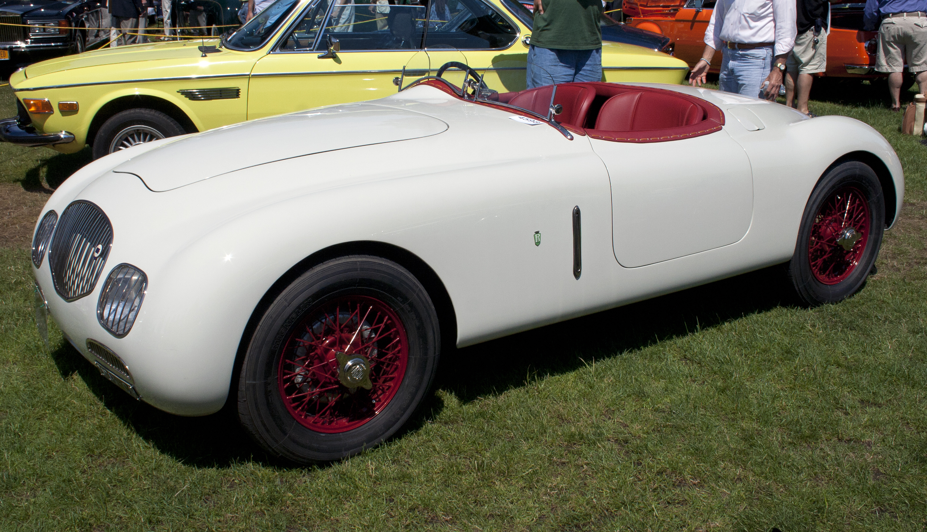 1946 Lancia Aprilia Corsa Sport, a Pagani-tuned car bodied by Riva (of boating fame) on a pre-war chassis. Seen at the 2012 Greenwich Concours d'Elegance.